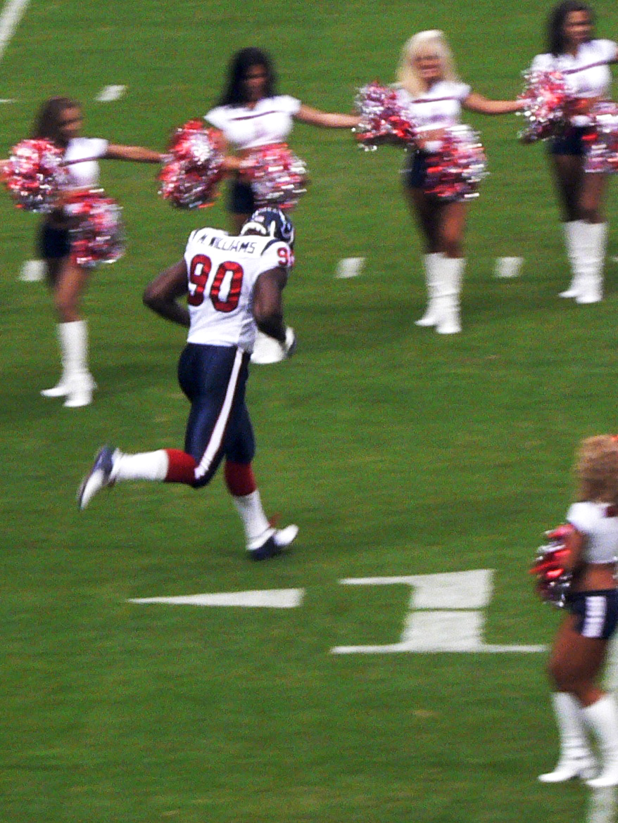 Houston Texans OLB Mario Williams during the 2006 first preseason match versus the Kansas City Chiefs.